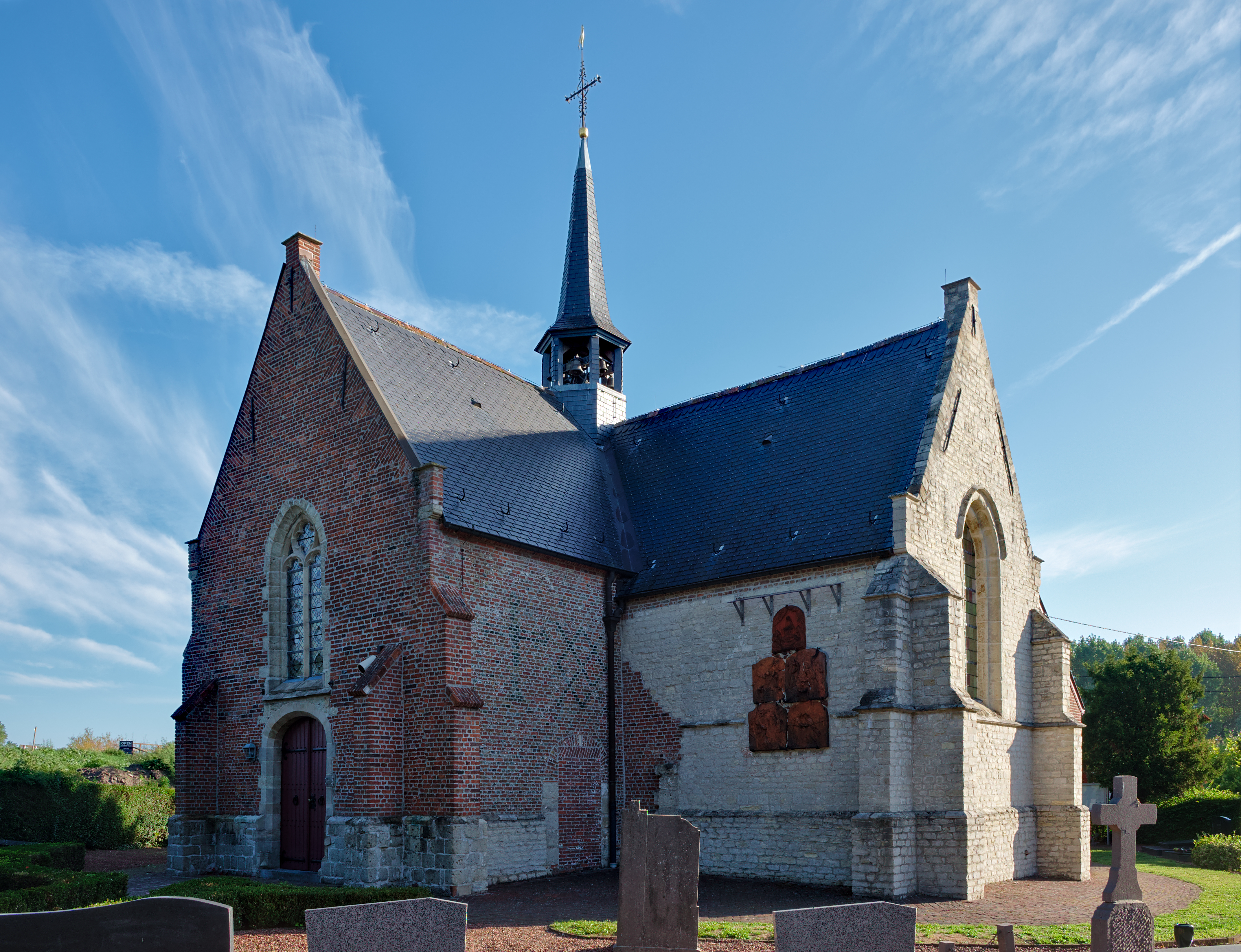 Church of Saint Gertrude in Vlassenbroek (Dendermonde, Belgium) This photo of immovable heritage has been taken in the Flemish Region